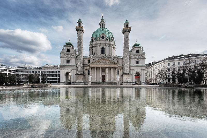 Austria, Vienna, St. Charles's Church